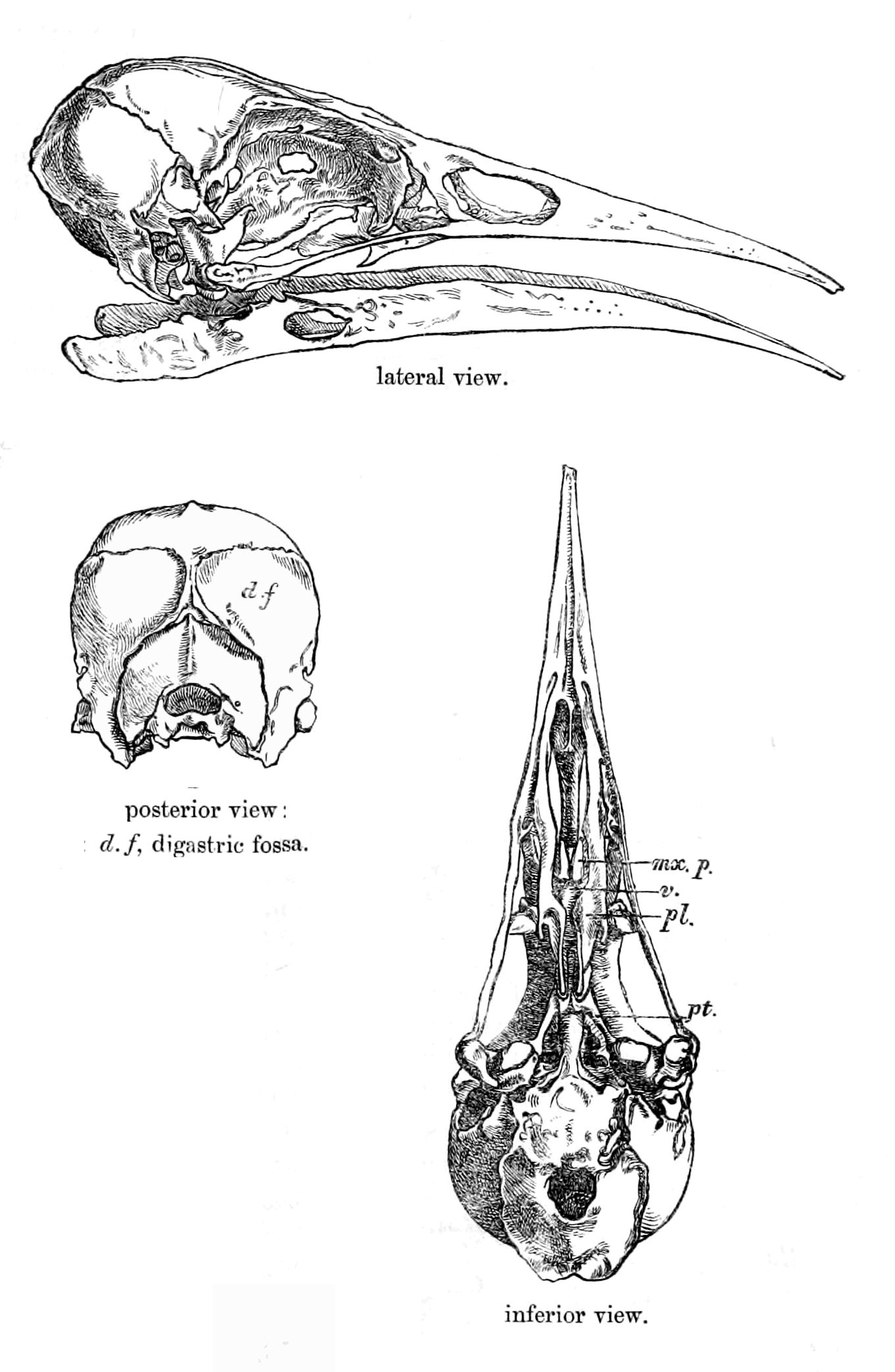 Huia male, skull from lateral (top), caudal (left) and ventral (right) d.f = digastric fossa mx.p. = maxillo-palatines pl. = palatine pt. = pterygoid v. = vomer